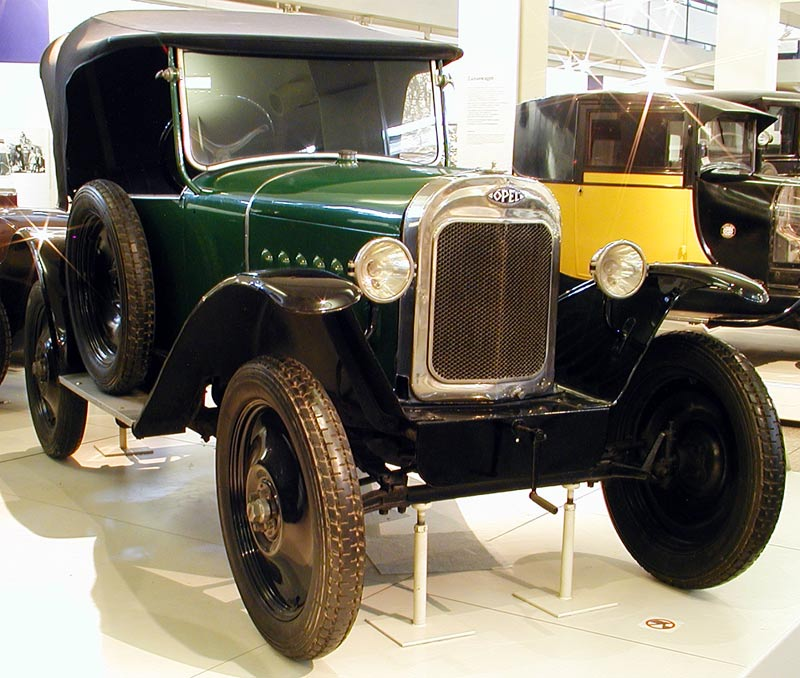 An Opel Laubfrosch.